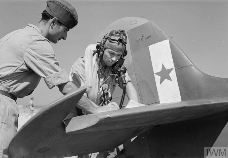 ROYAL AIR FORCE: ITALY,THE BALKANS AND SOUTH-EAST EUROPE, 1942-1945. (CNA 3099) Watched by his rigger (left), a pilot of No. 352 Squadron, the first operational Yugoslav unit in the RAF, signs the aircraft serviceability form for his Supermarine Spitfire Mark VC on the tailplane of the aircraft, before taking off on the unit's first operation. Note the Yugoslav national marking, consisting of a red star superimposed on the white portion of RAF tail stripe. Copyright: � IWM. Original